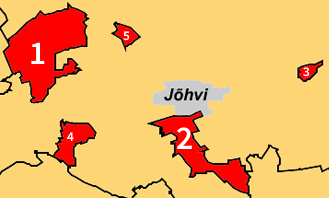 Map of administrative districts of Kohtla-Järve, Estonia. This image was created by Senzeichi.